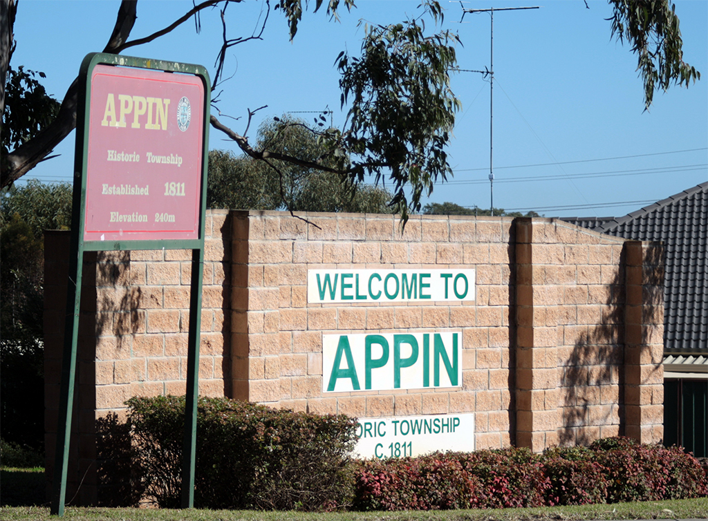 Town entry sign, northern side, Appin, NSW, Australia.